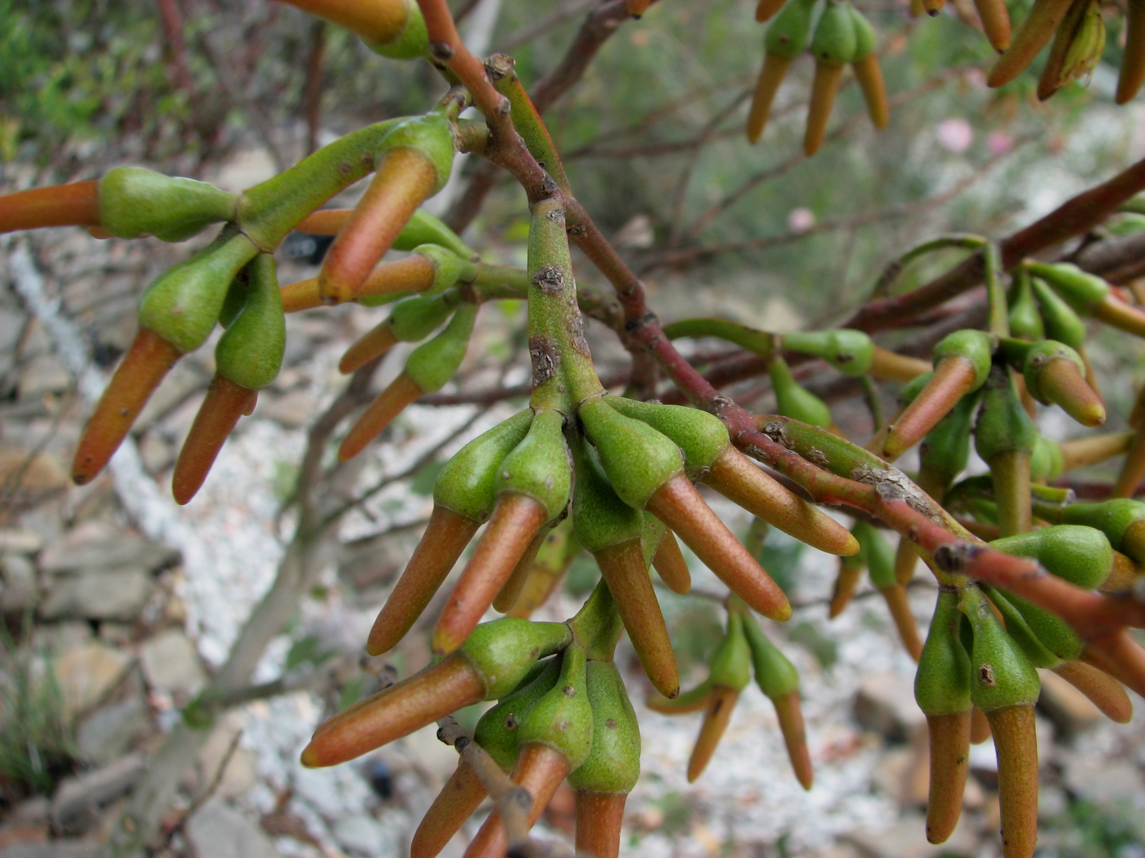 Eucalyptus eremophila flower buds (cultivated, labelled), Royal Botanic Gardens Cranbourne, Victoria, Australia